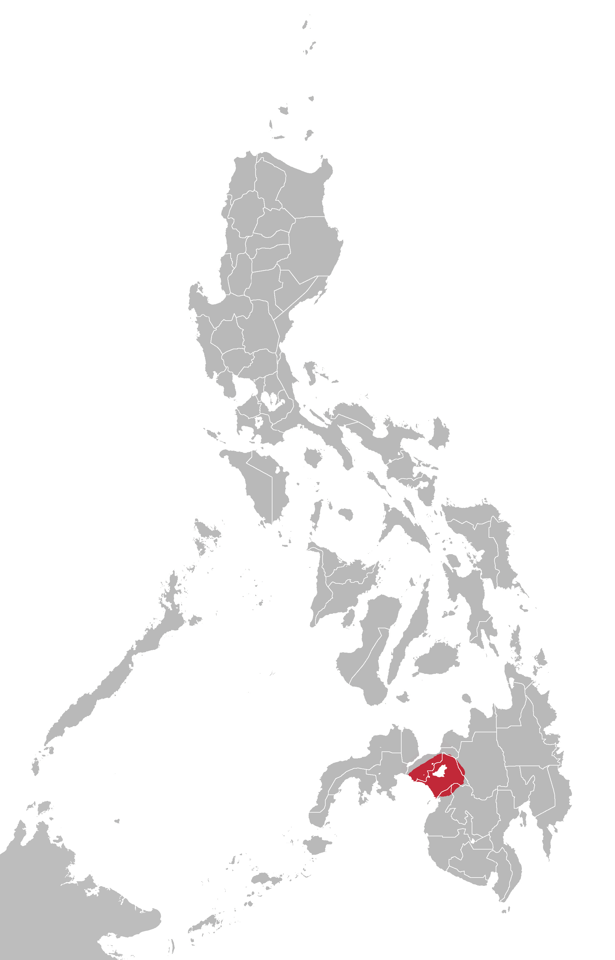 Maranao language map based on Ethnologue maps